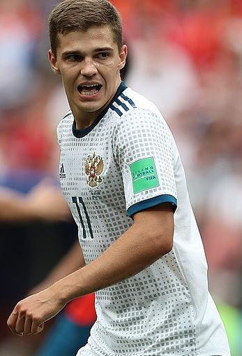 Romam Zobnin at the 2018 FIFA world cup